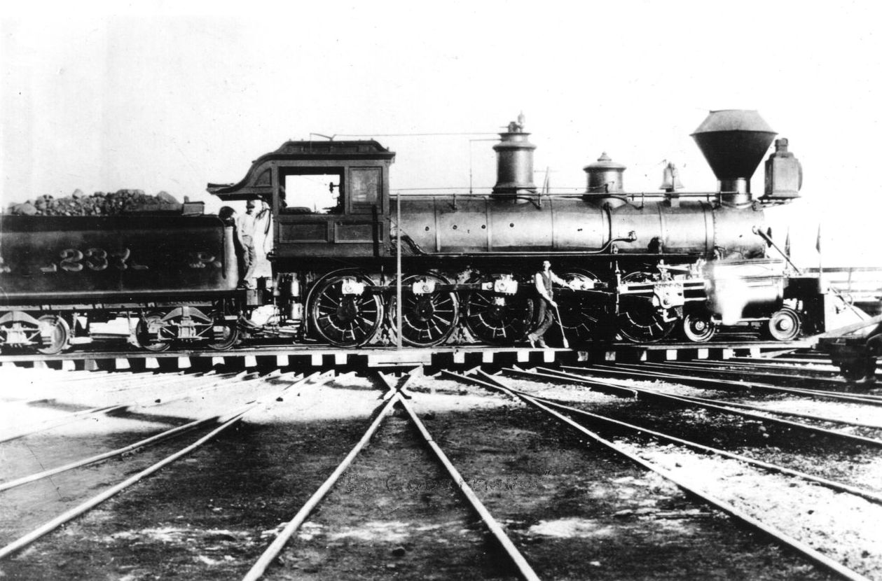 El Gobernador, the only 4-10-0 locomotive to operate in the United States. It was scrapped in 1894, so the photo must be from then or before.